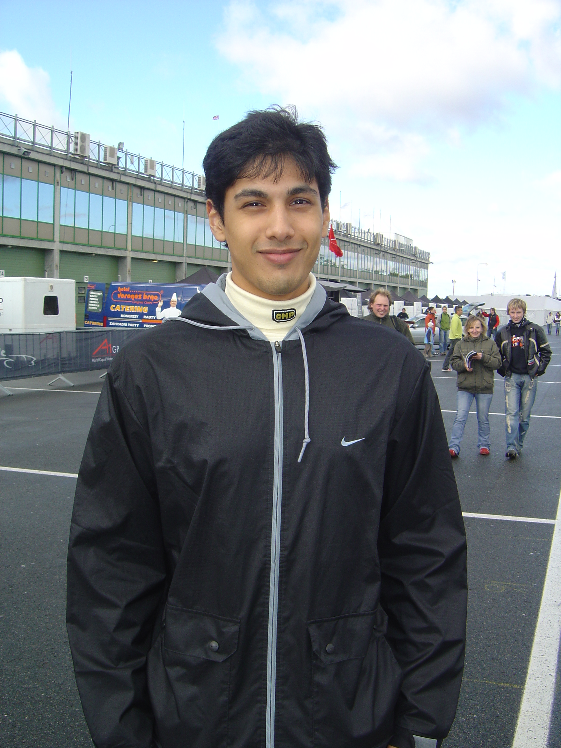 Adam Khan: the photo was taken during 2007's A1GP race weekend at Brno